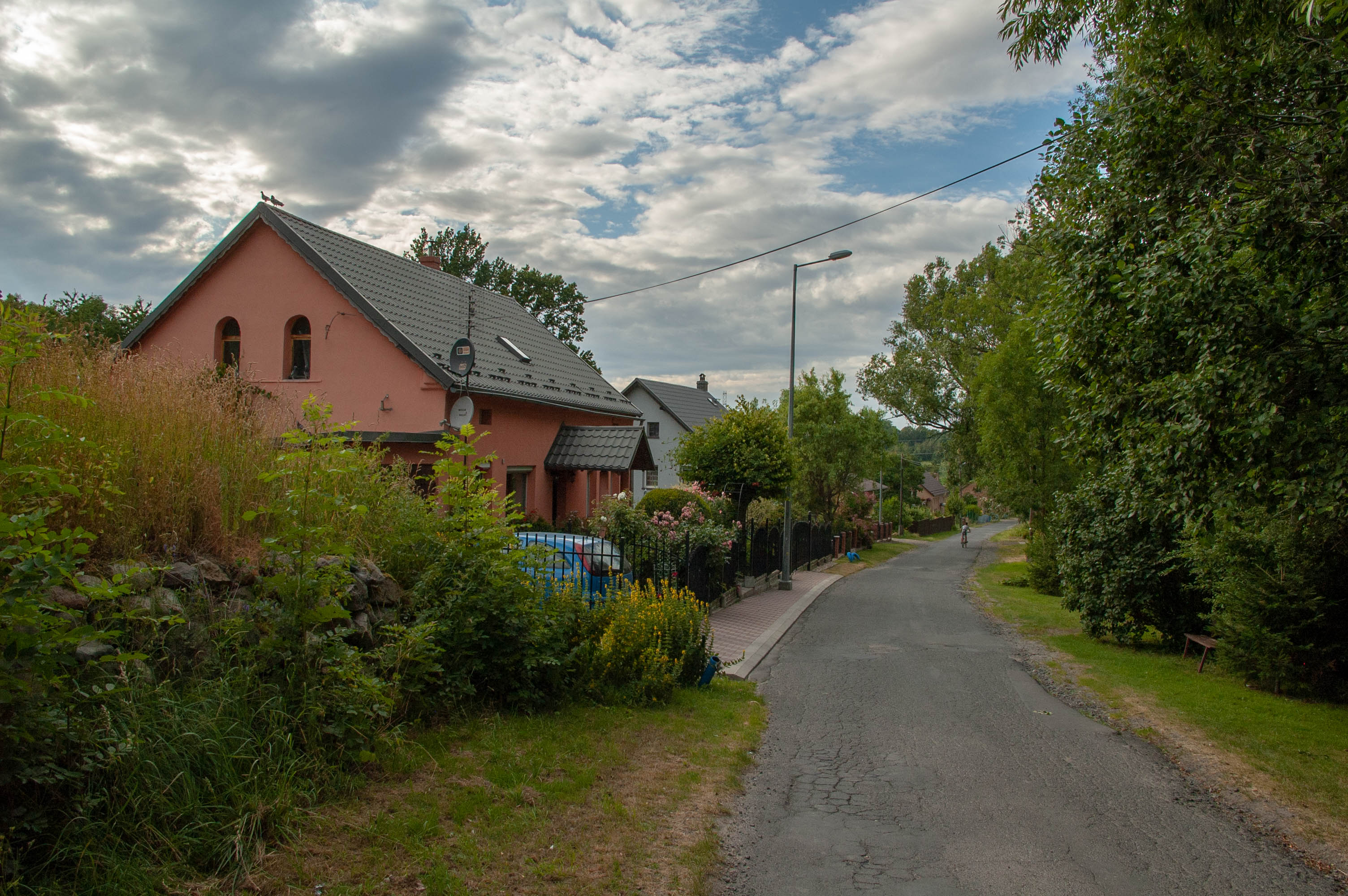 This photograph was created as a part of Wikiexpedition Lower Silesia, a project supported by Wikimedia Poland grant.